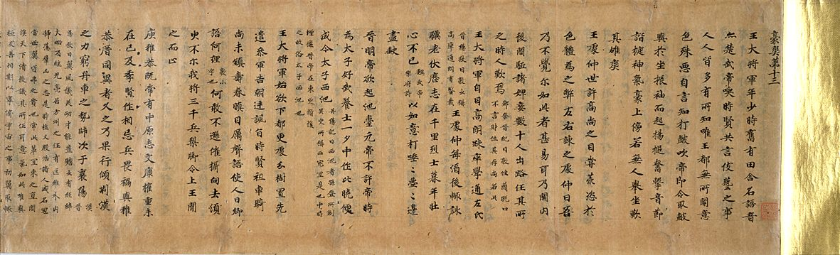 An ancient transcript of Shishuo Xinshu (New Account of Tales of the World), dated in Tang Dynasty.